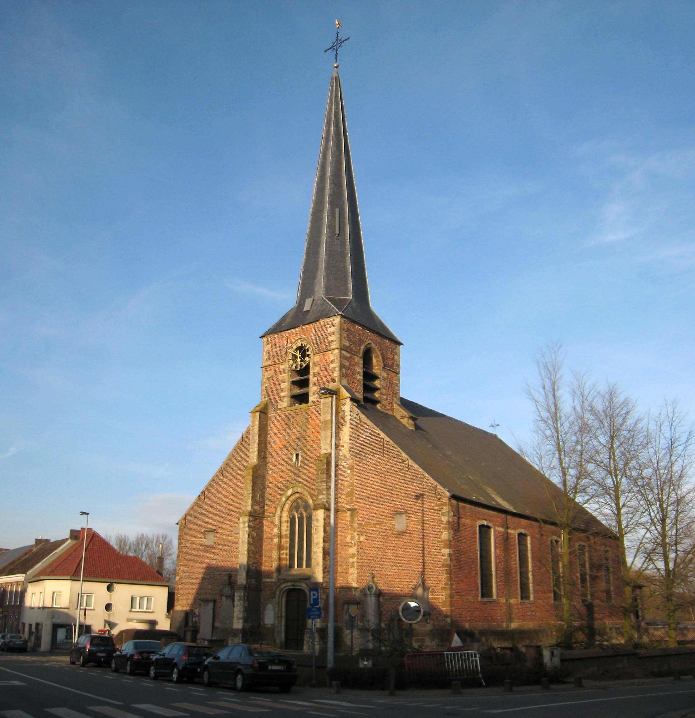 Saint Amand Church in Aspelare, Ninove, Belgium